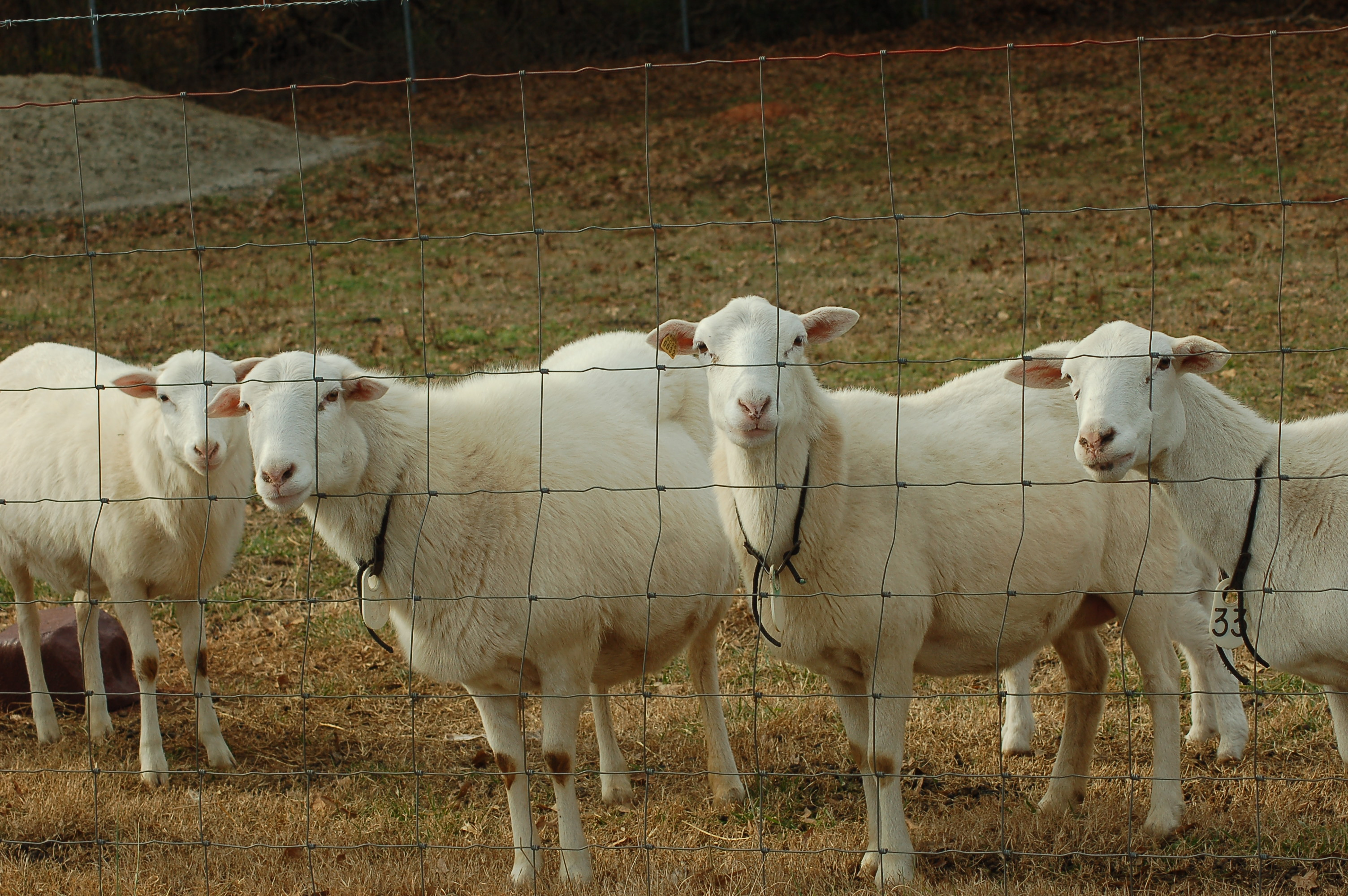 A flock of St. Croix sheep in South Carolina.